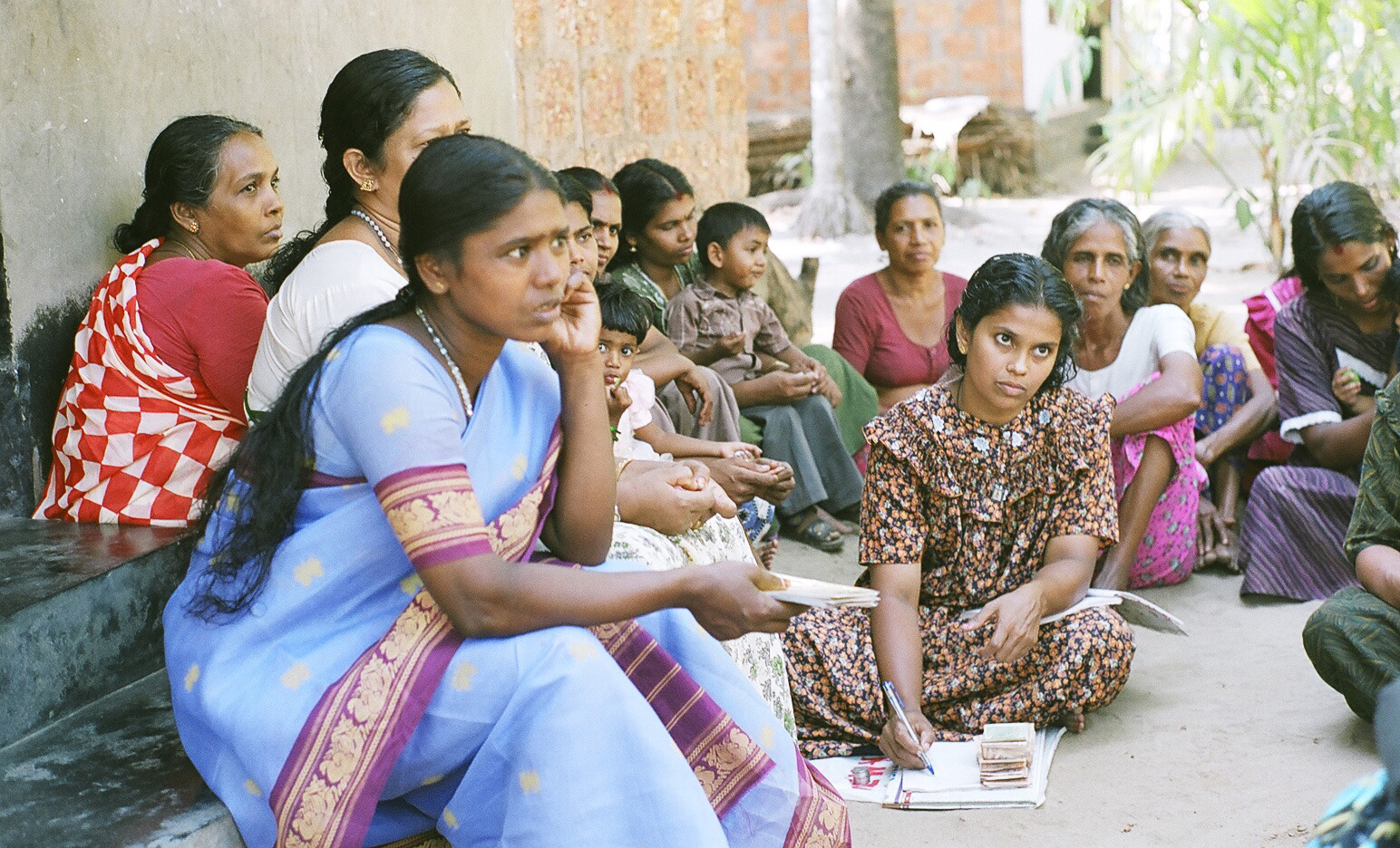 An ESAF 'Sangam' Meeting in progress in Kerala